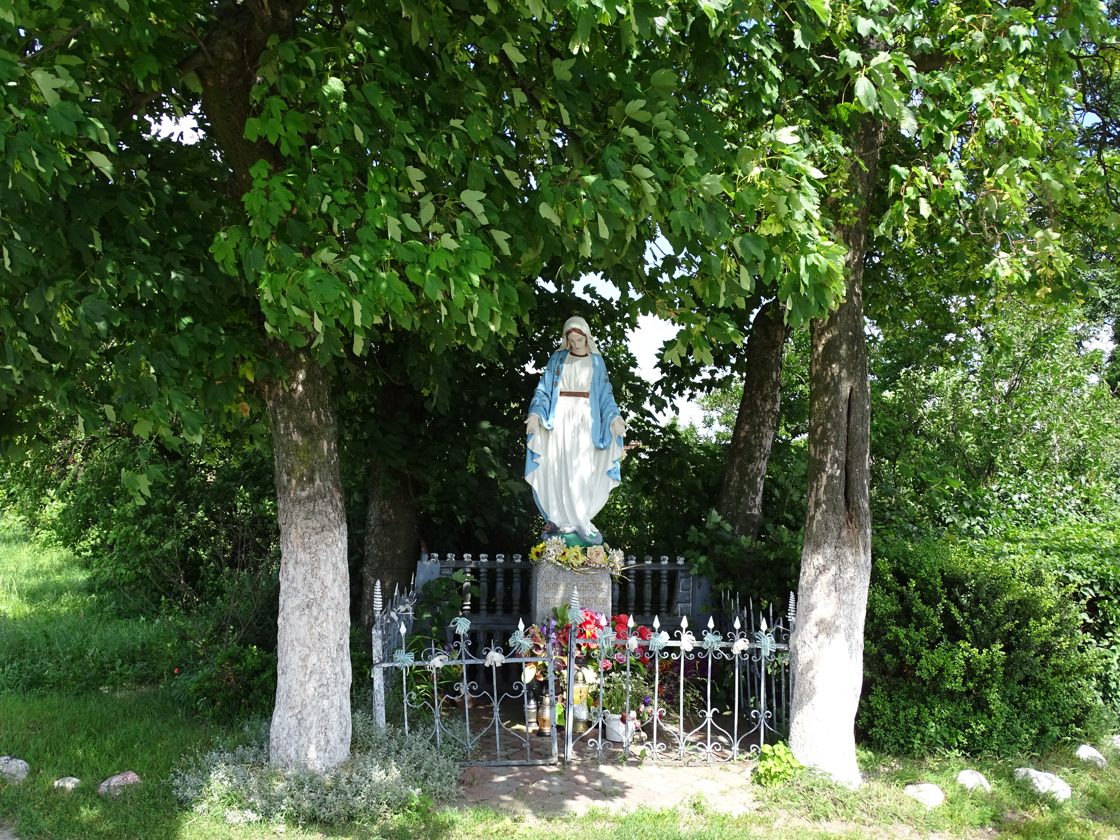 Krukowo, Gmina Choceń, Poland. The roadside shrine.